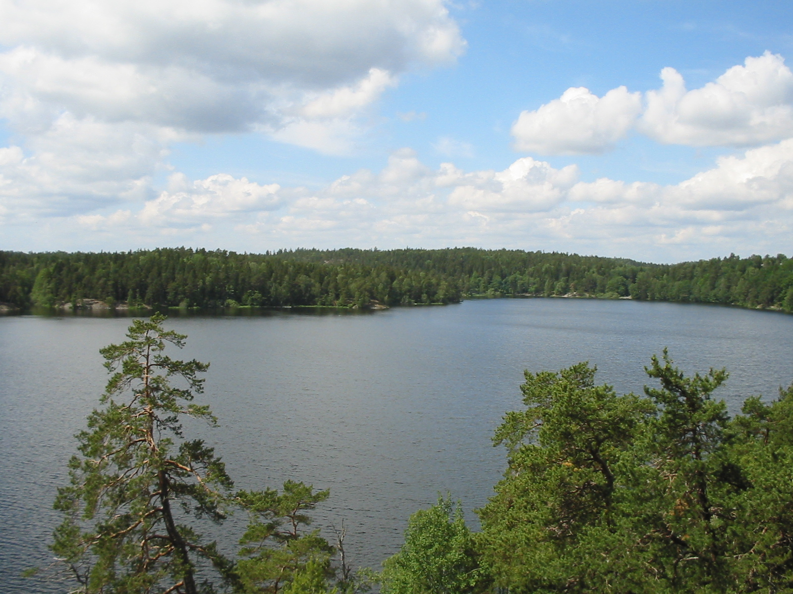 Lake Tyresö-Flaten, Tyresö. View northwest from a height southeast of Nyfors.